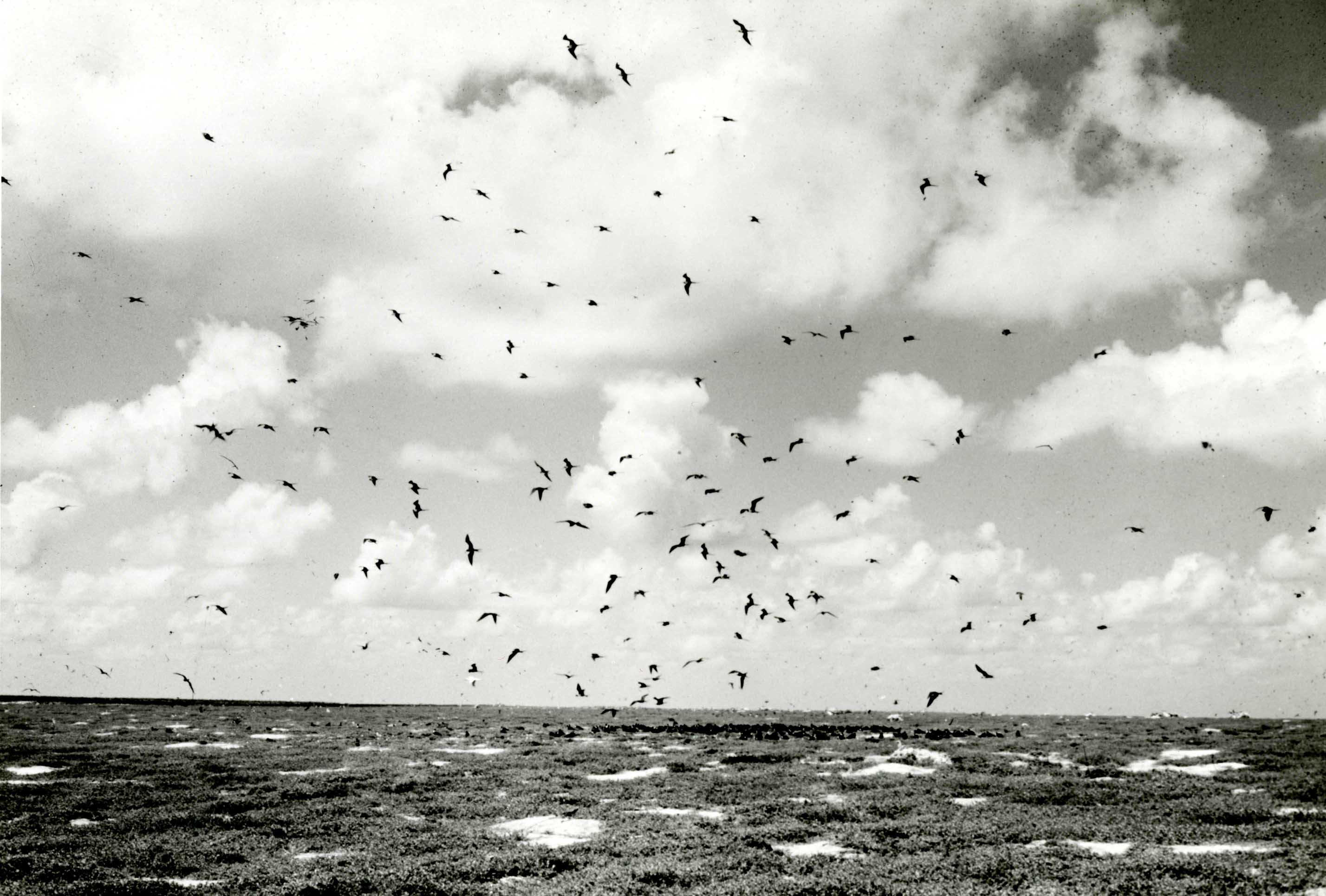 Creator: Robert R. Fleet Local number: SIA2011-1362 Summary: RU 245 Box 230 Folder 17. Lesser frigate-bird colony on Phoenix Island, September or October 1965. This photograph was taken by researcher Robert R. Fleet during his work with the Pacific Ocean Biological Survey Program. Repository: Smithsonian Institution Archives View more collections from the Smithsonian Institution.